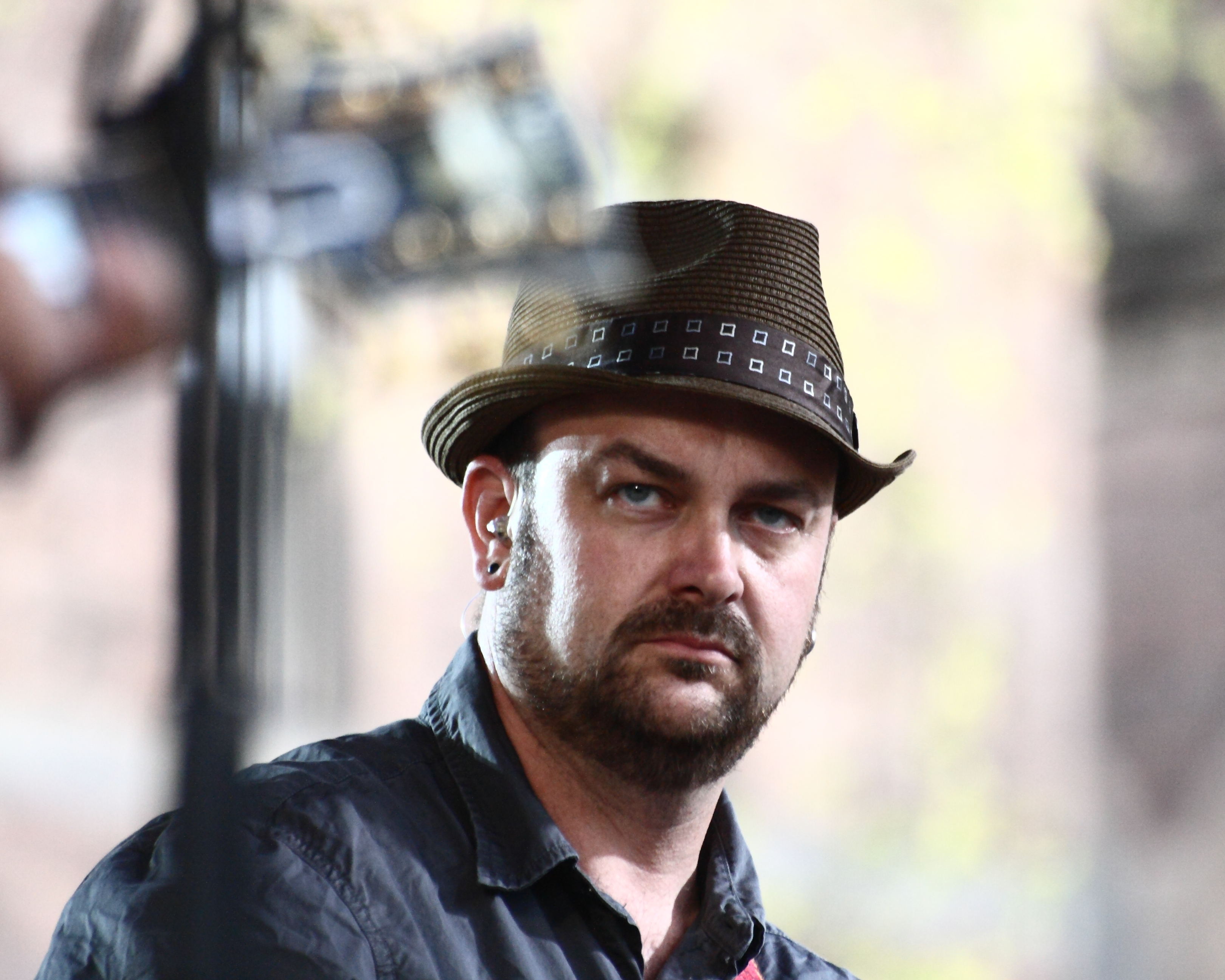 The Decmeberists performing at the Yale University "Spring Fling" on 28 April 2009, on Yale's Old Campus. Part of a larger set on Flickr: The Decemberists, 28 April 2009